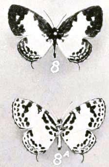 Druce, H. H. 1910 Illustrations of African Lycaenidae : being photographic representations of type specimens contained in the Imperial Zoological Museum at Berlin. London, H.H. Druce. PLATE III Fig. 8, 8a Cupido kontu Karsch. B.E.Z. 38, p. 227 (1893). Bismarkburg. Treated by Professor Aurivilius as a variety of C. (Castalius) carana Hew.Exot Butt, Lyc. t. if 6 (1876) [=Tuxentius carana kontu Polyommatinae] (Karsch, 1893)